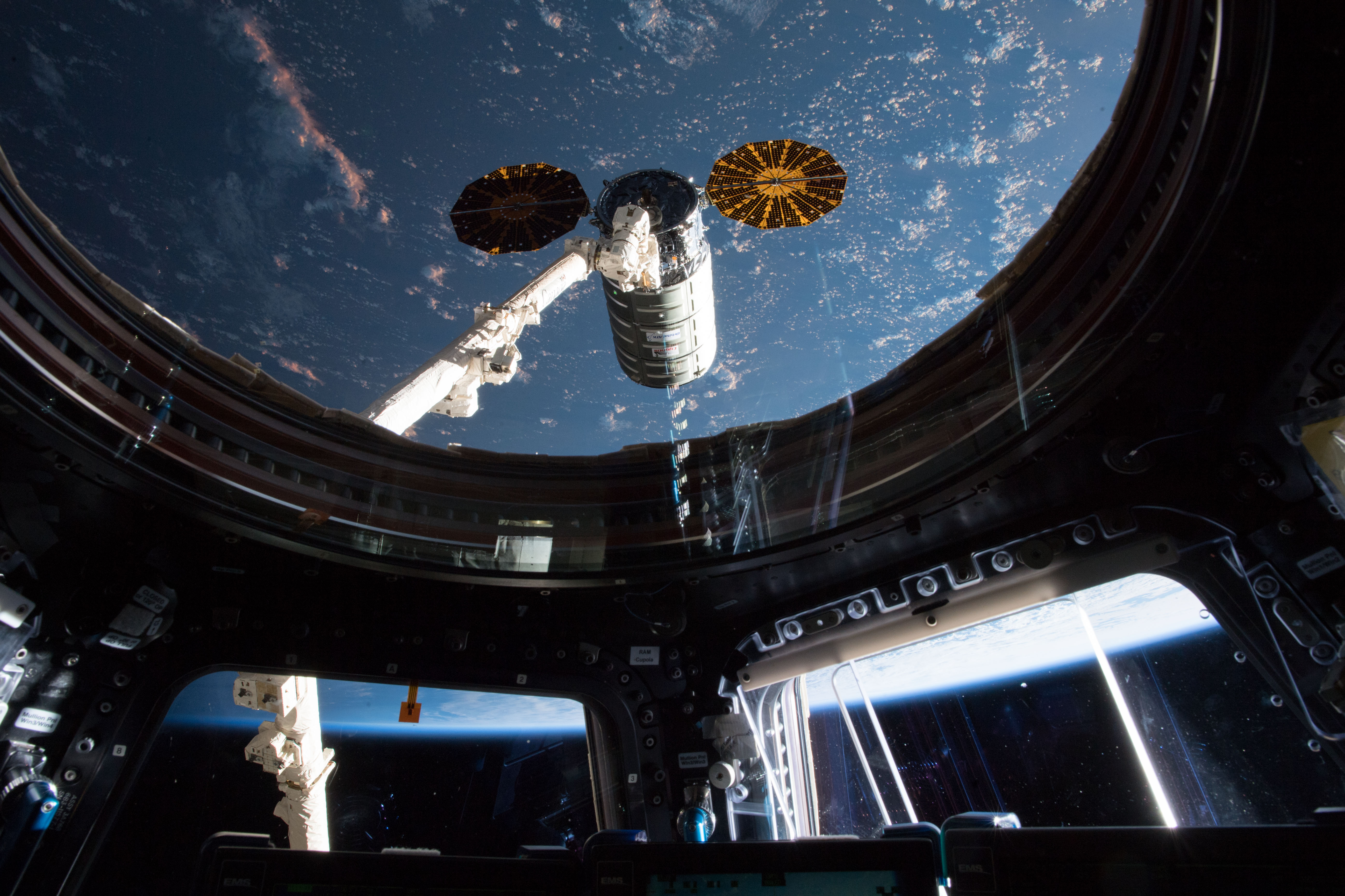 This view taken from inside the Cupola shows the Orbital ATK space freighter moments before it was grappled with the Canadarm2 robotic arm.